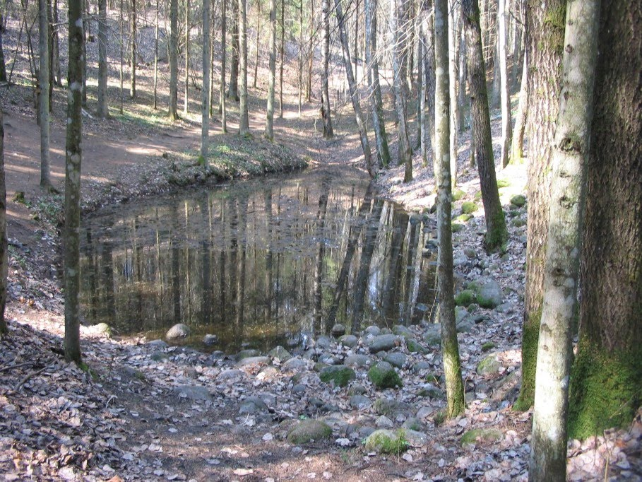 Pokaiņi Forest